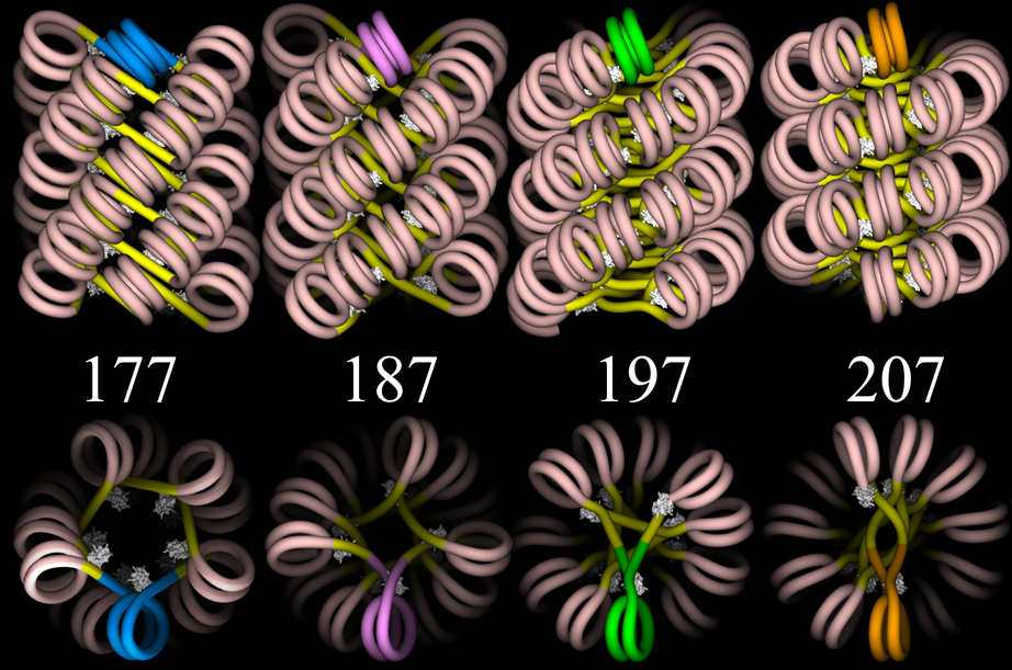 Four proposed structures of the 30 nm chromatin filament for DNA repeat length per nucleosomes ranging from 177 to 207 bp. Linker DNA in yellow and nucleosomal DNA in pink.